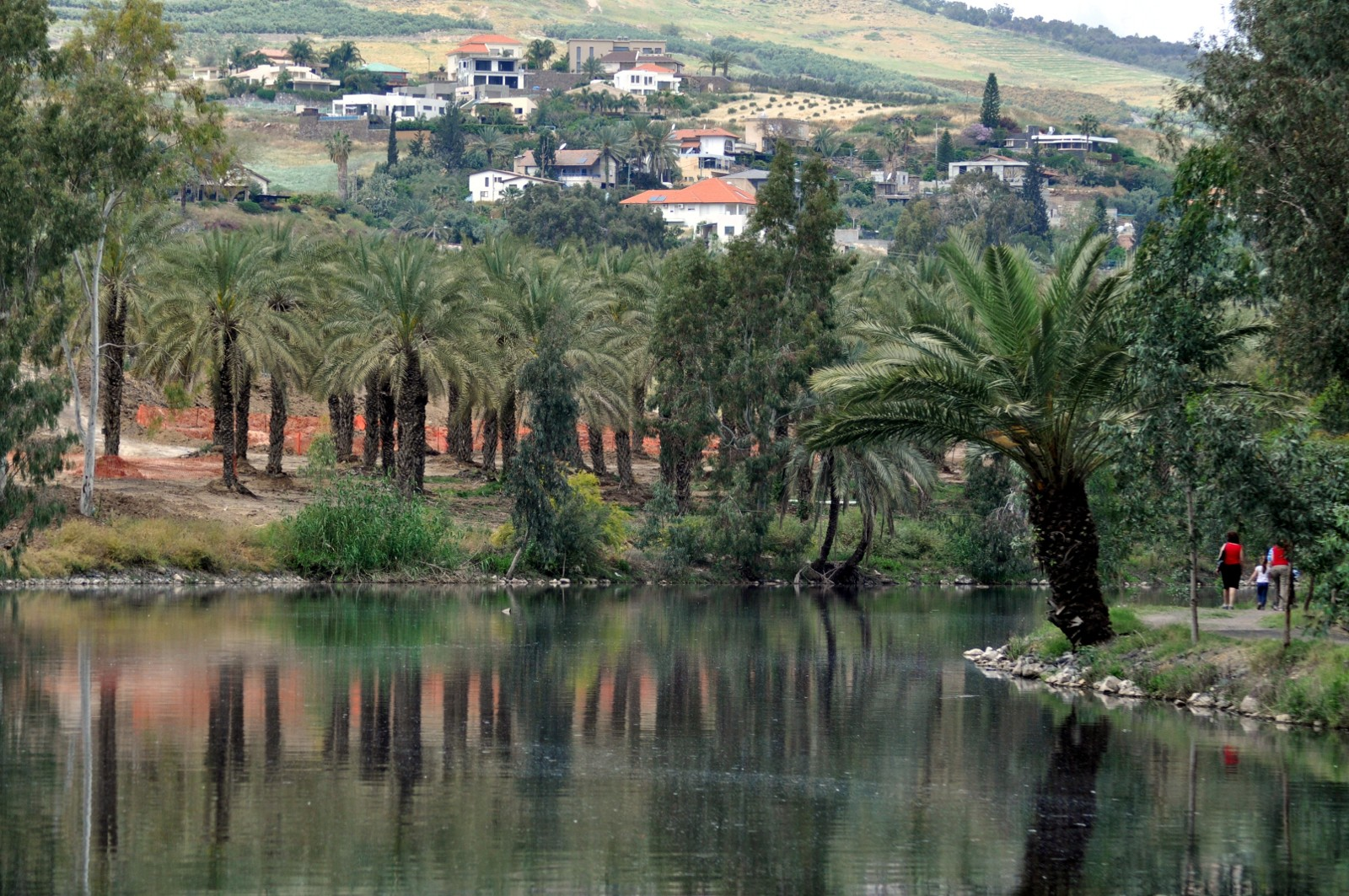 Geography of Israel